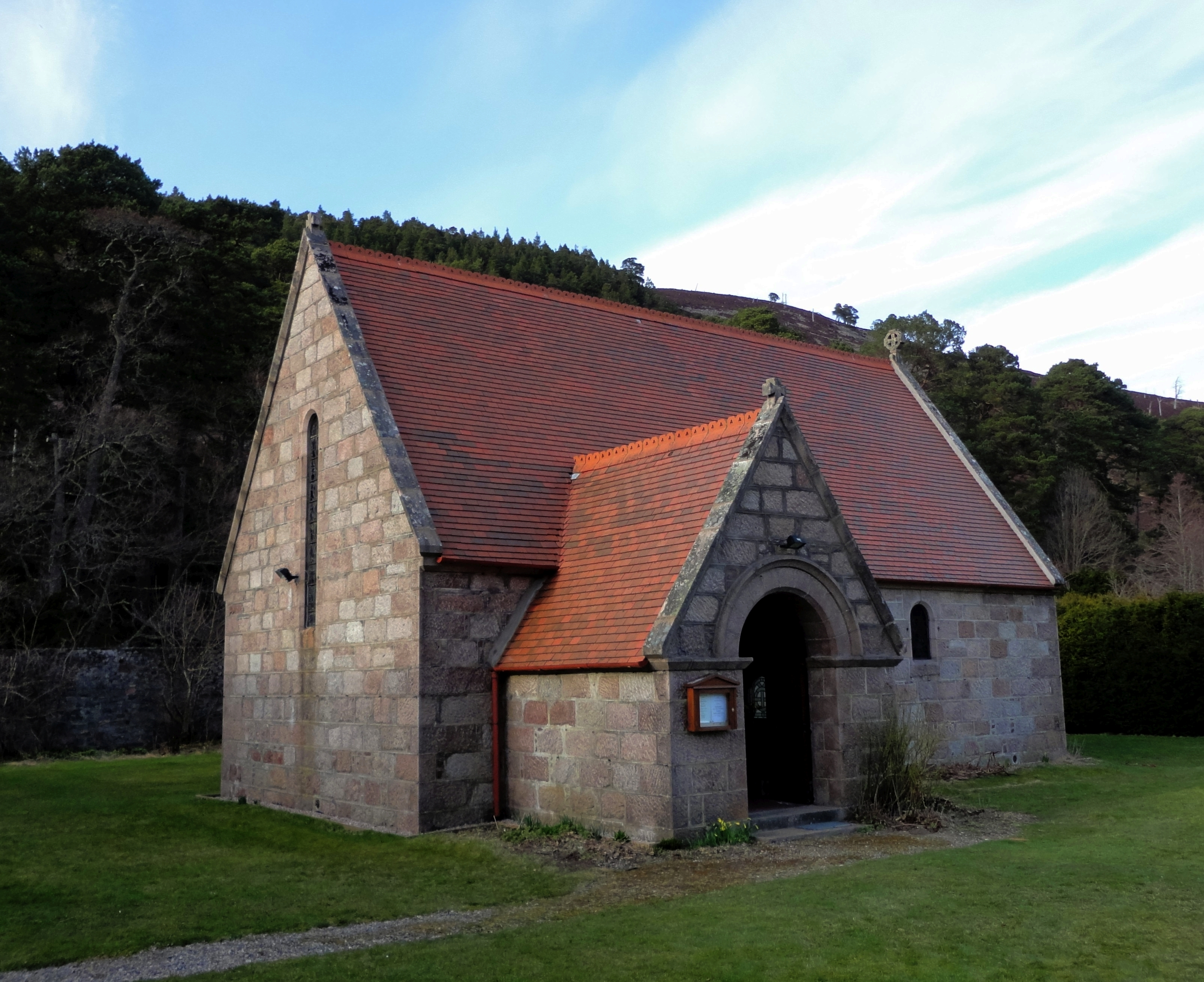 Braemar, Mar Lodge Estate, St Ninian's Chapel - exterior fabric